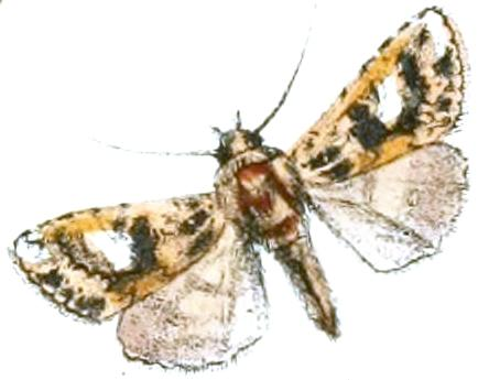 A male noctuid moth from Bengal